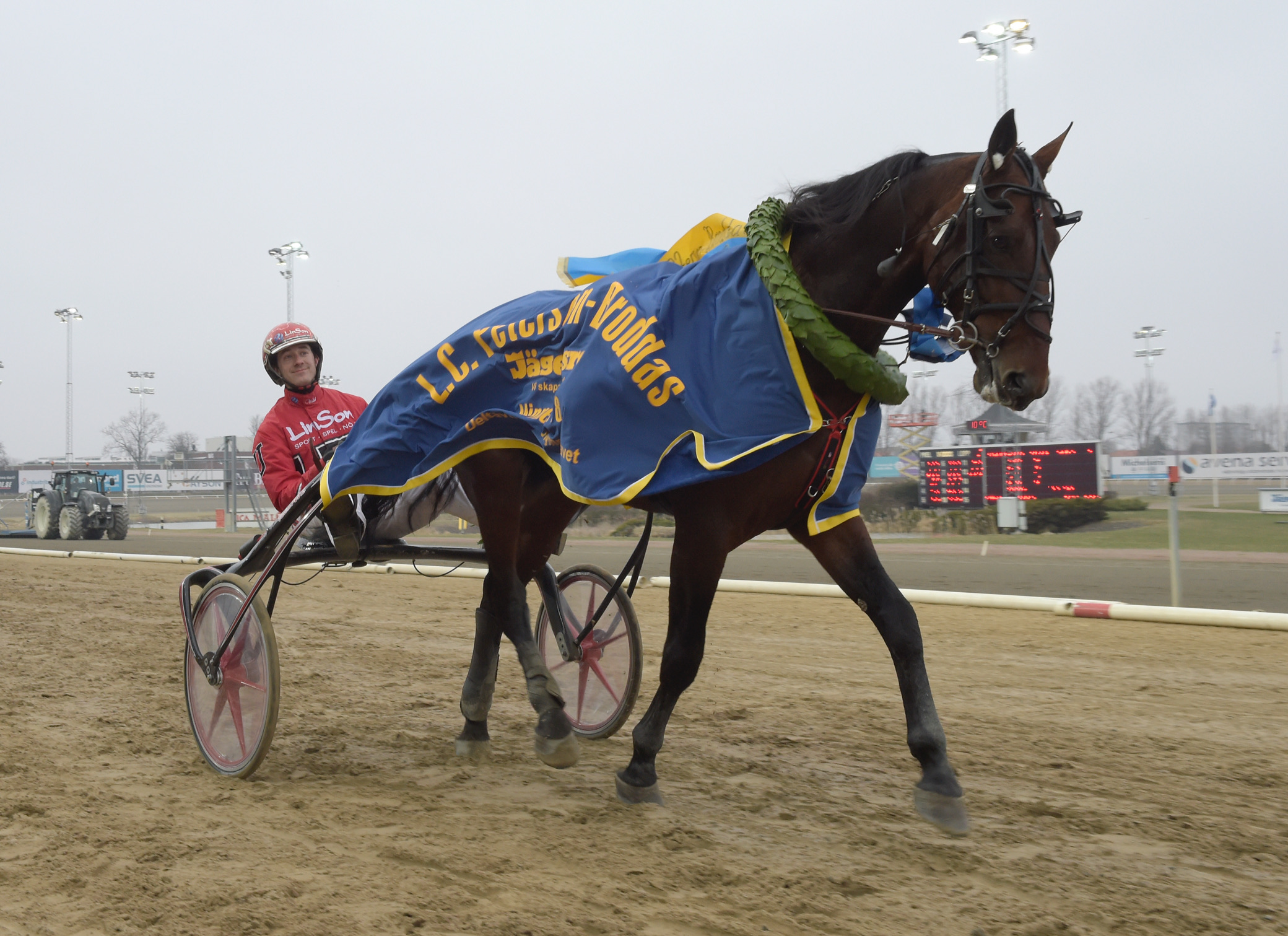 Day or Night In and Johan Untersteiner. Jägersro, L.C. Peterson-Broddas Minneslöpning. 2019-04-06.